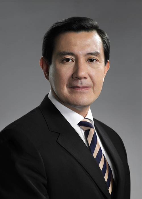 Official Portrait of Republic of China President Ma Ying-jeou